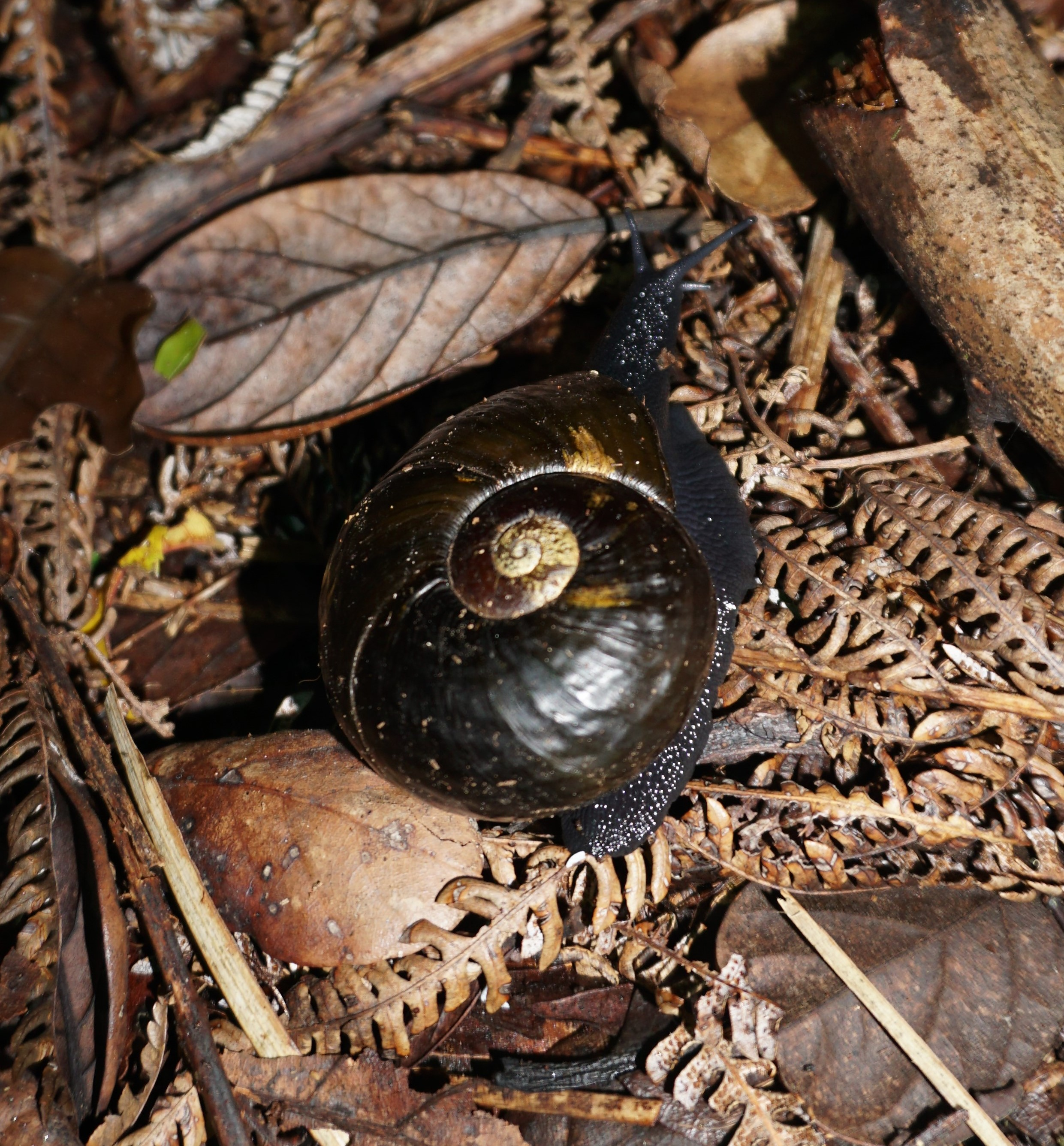 Kauri snail Paryphanta busbyi photographed at night at Waipoua Forest 15th April 2018